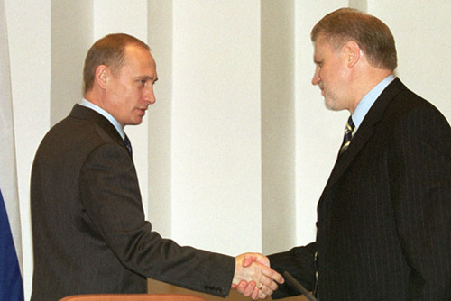 MOSCOW. President Putin with Sergei Mironov, newly elected Chairman of the Federation Council.